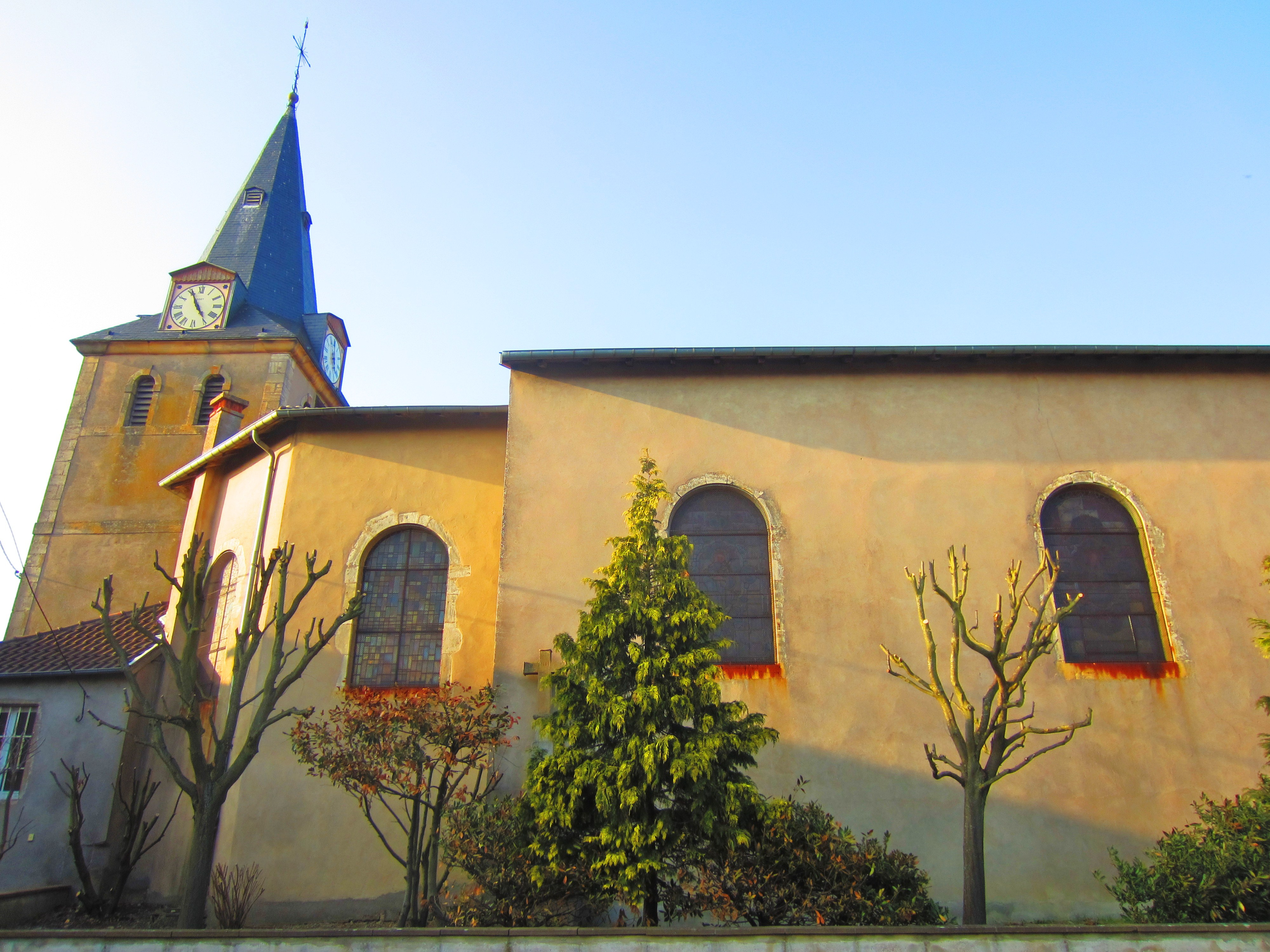 Luppy church